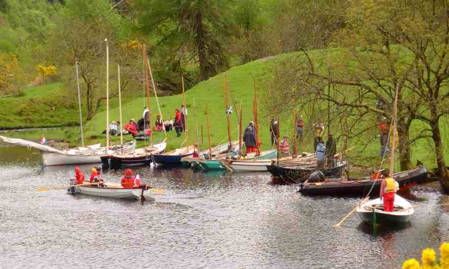 During "Sail Caledonia" 2006